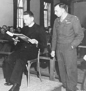 Polish priest Theodore Korcz reads to Lt. Colonel William Denson from a camp medical record presented as evidence at the trial of former camp personnel and prisoners from Dachau. The log recorded the deaths of several Catholic priests who were used as subjects in malaria experiments.